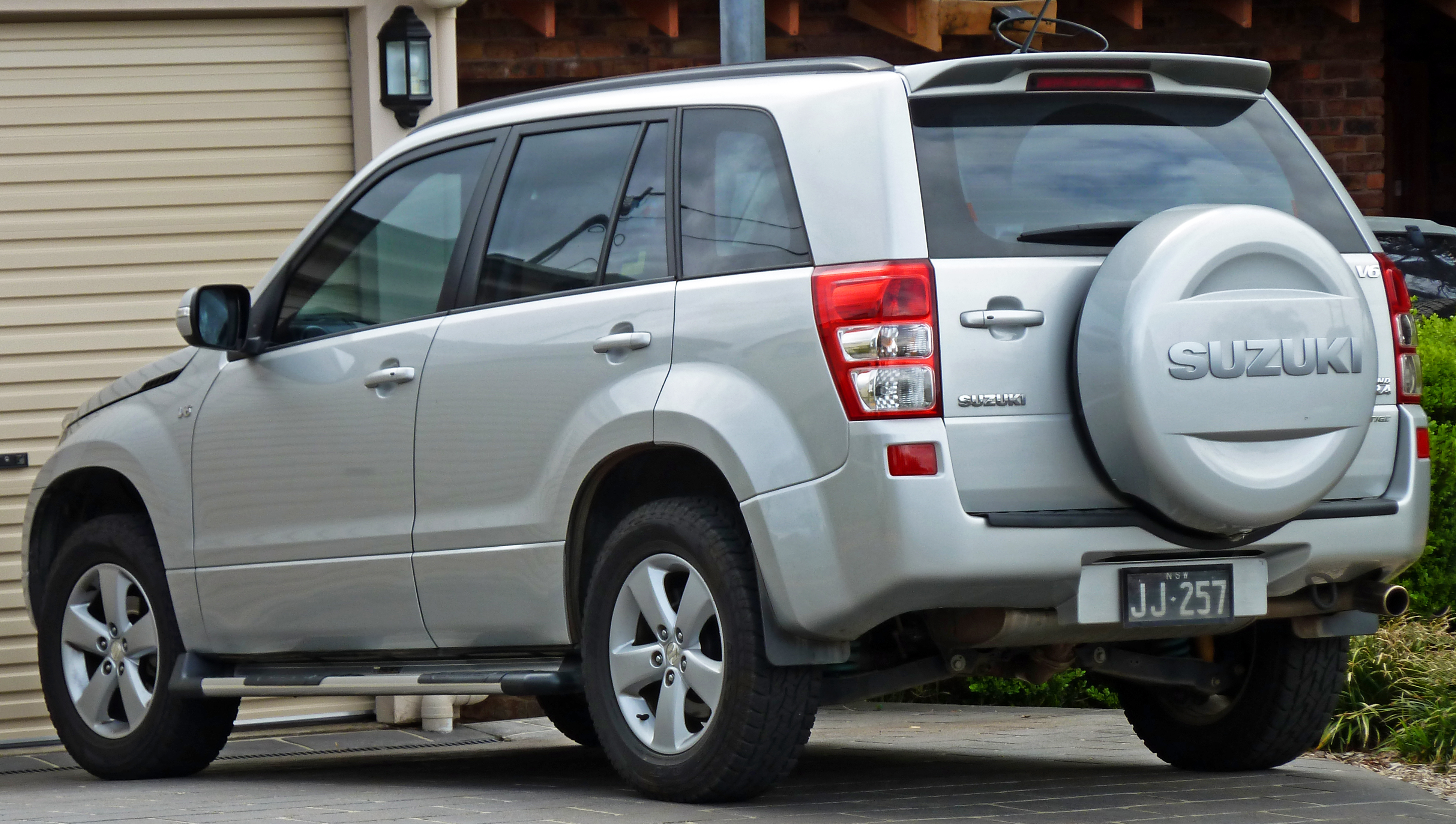 2009 Suzuki Grand Vitara (JB MY09) Prestige 5-door wagon. Photographed in Gymea Bay, New South Wales, Australia.